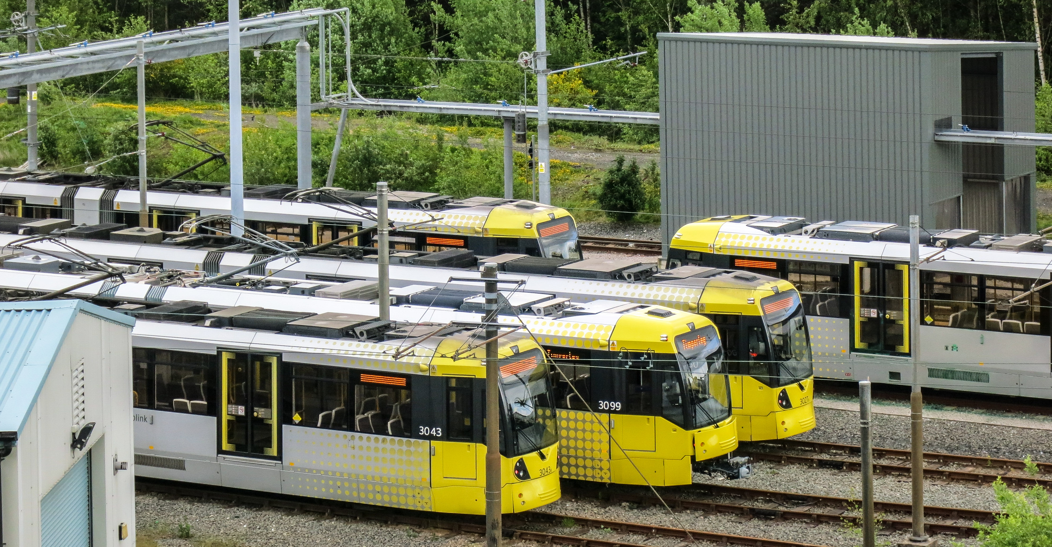 The Metrolink Depot at Collyhurst.